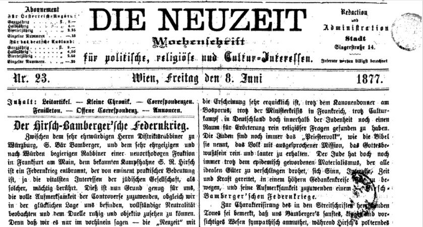 A column in the Vienna-based newspaper Die Neuzeit about the strife in Frankfurt between Rabbis Samson Raphael Hirsch and Seligman Baer Bamberger over the question whether Orthodox Jews are obliged religiously to secede from liberal, Reform-oriented communities.